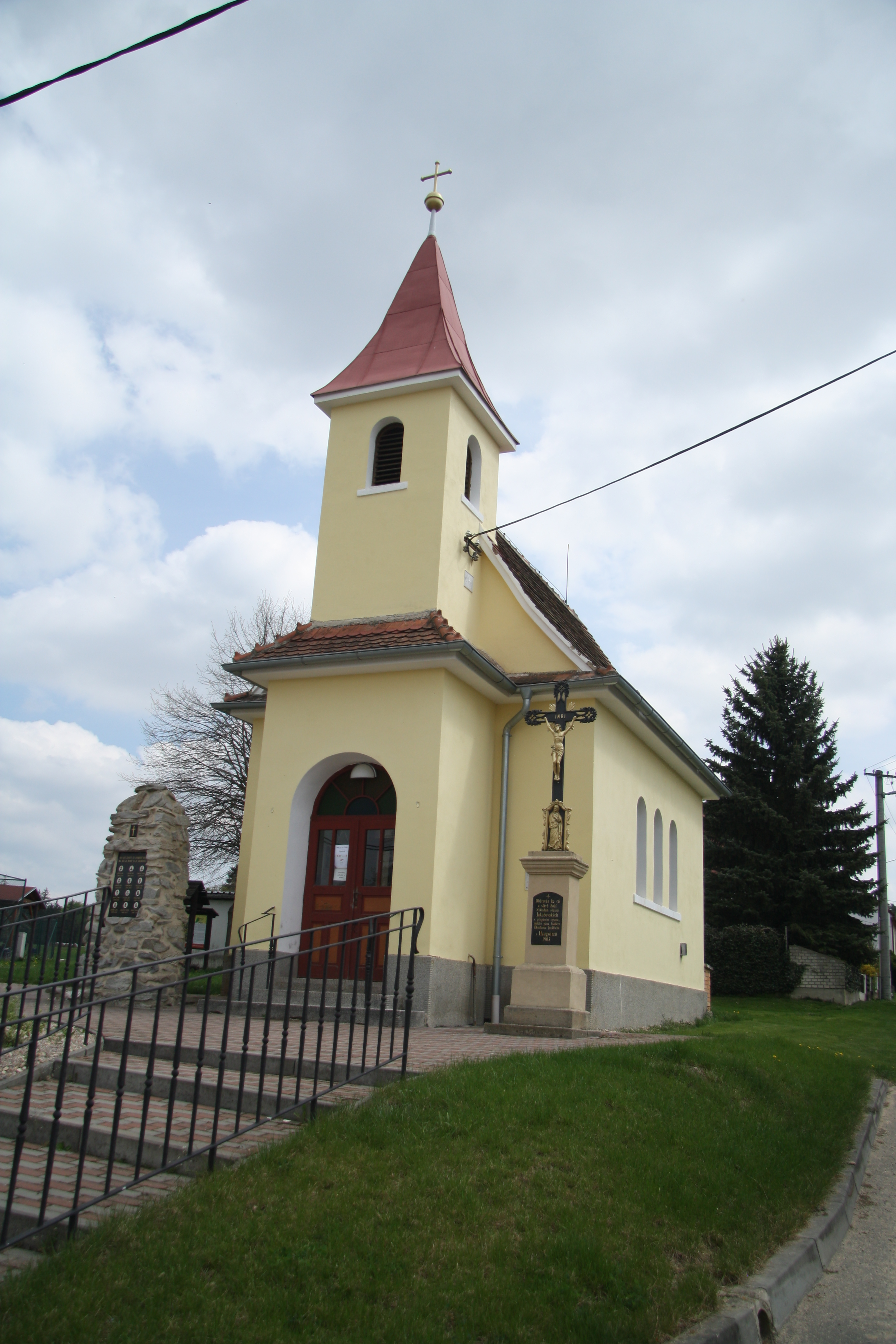 Overview of Chapel of Saints Cyril and Methodius in Lesní Jakubov, Třebíč District.